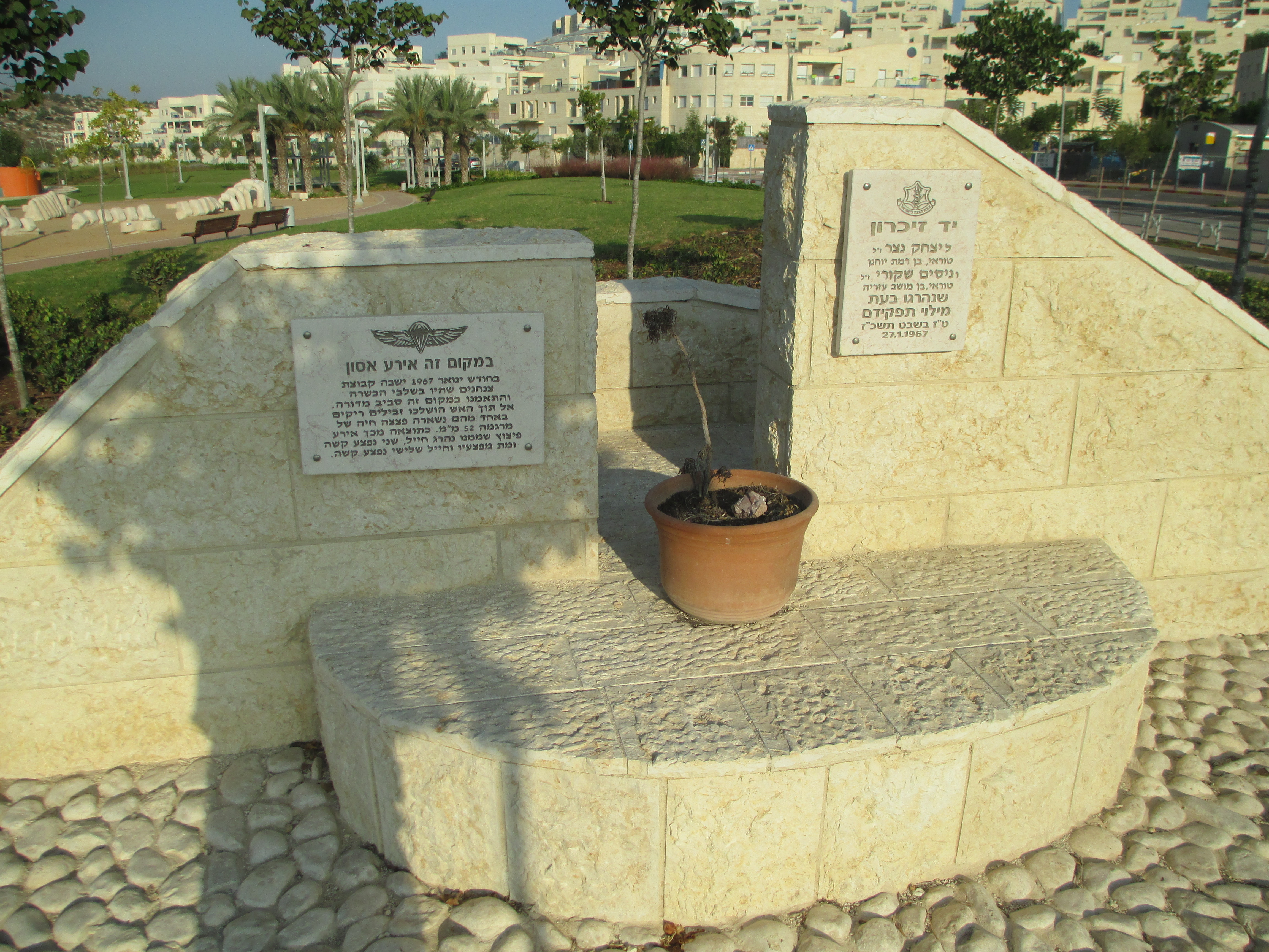 Memorial to 2 IDF paratroopers in Modi'in